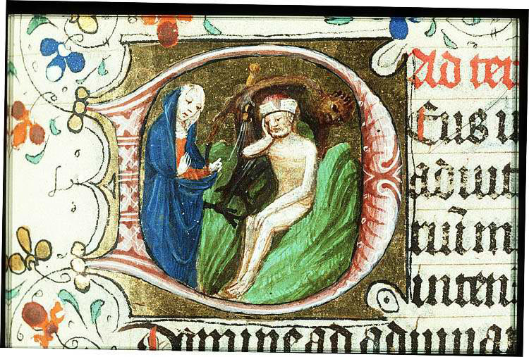 Taken from - due to its age it is in the public domain